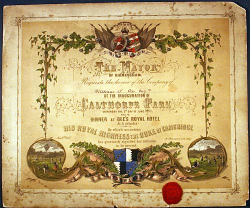 Invitation to the Opening of Calthorpe Park, Birmingham, England, by Prince George, Duke of Cambridge, on 1 June 1857. "This invitation was issued to William Sands Cox, founder of Queen's Hospital in 1840 as a clinical school for the Birmingham Royal School of Medicine. The invitation is richly illustrated and contains depictions of the kinds of activities that the organisers of the event wanted to associate with this park."